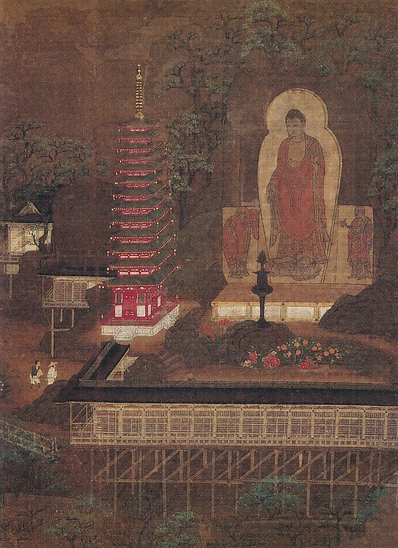 Kasagi Mandala, Yamato Bunkakan, Nara, Nara, Japan